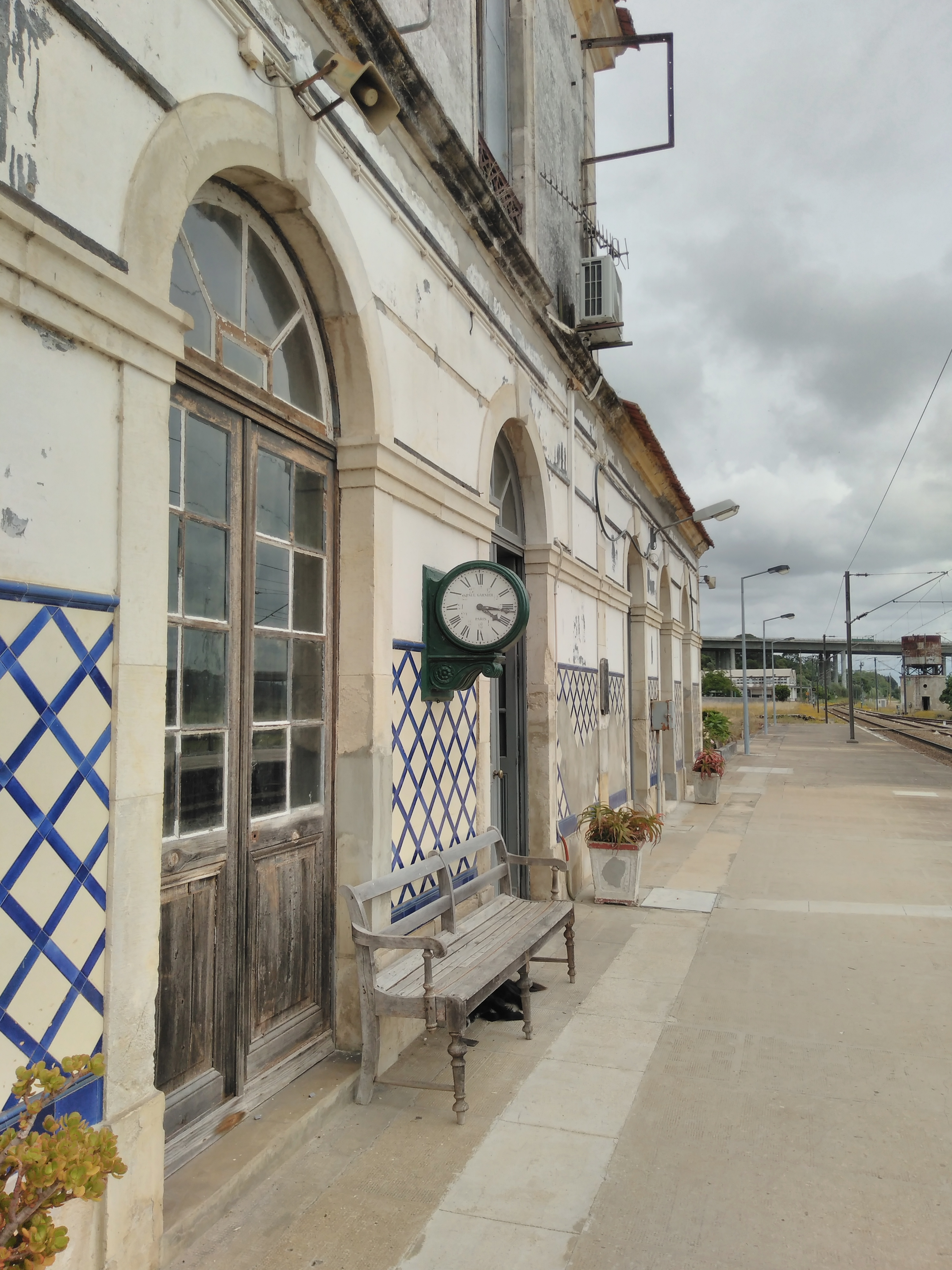 Clock of Amieira train station on Linha do Oeste; Amieira, Portugal